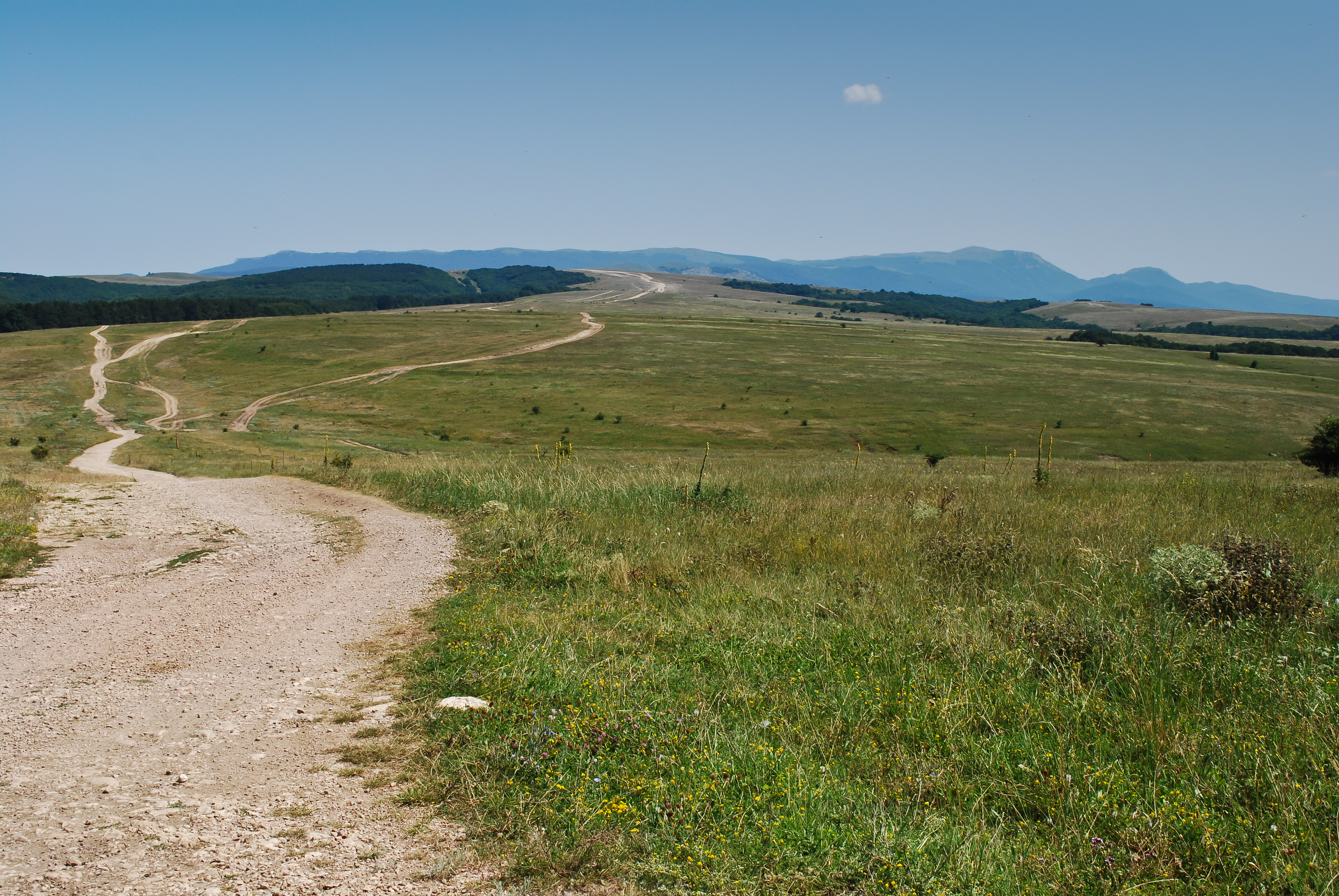 The Suv Batqan yayla (Dolgorukov's yayla) in Crimea (Crimean mountains)